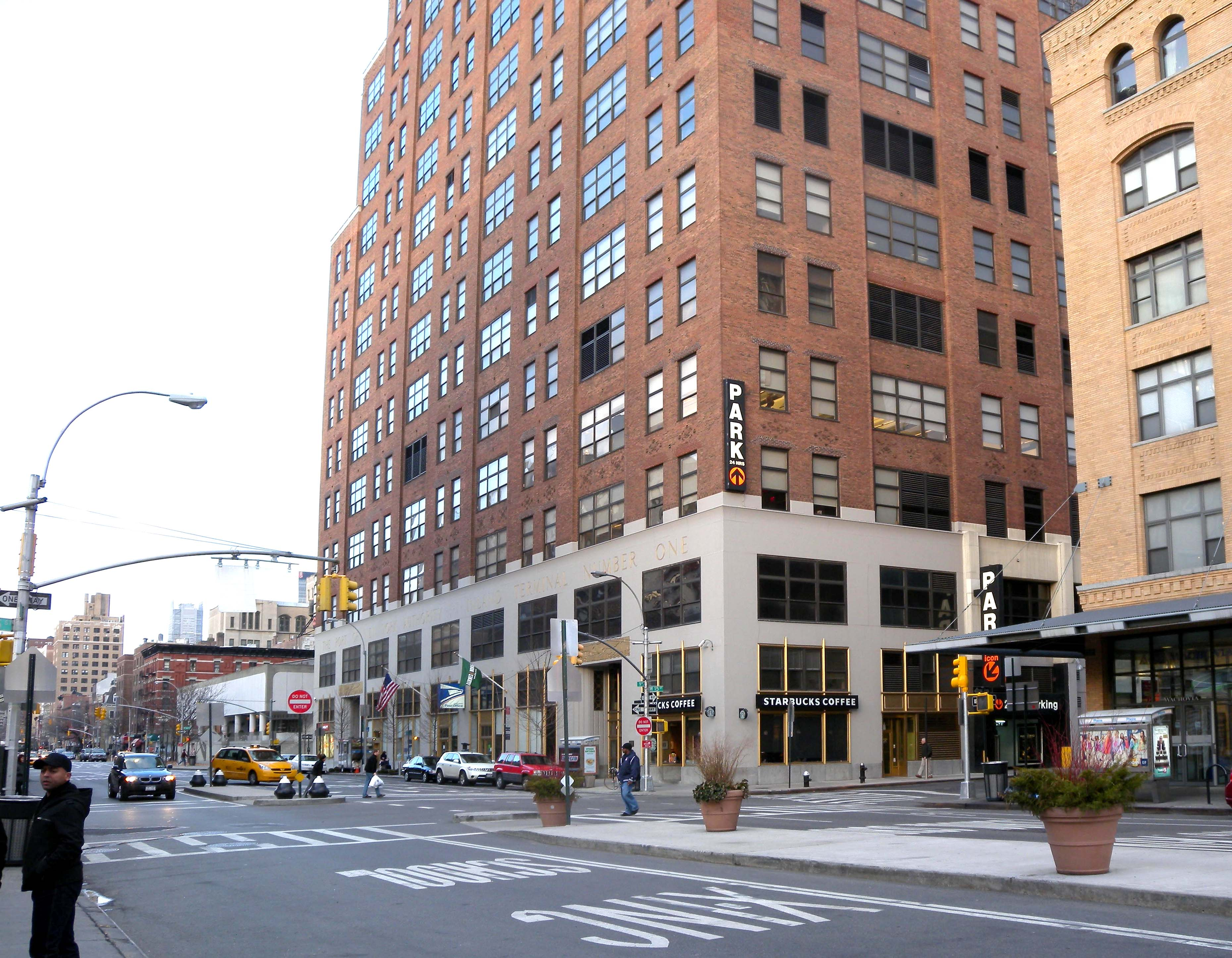 Looking northeast across 9th Ave and 15th Street at Inland Terminal One of the New York Port Authority on a mostly cloudy afternoon.